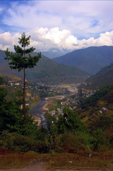 The Dirang valley in Arunachal Pradesh, India